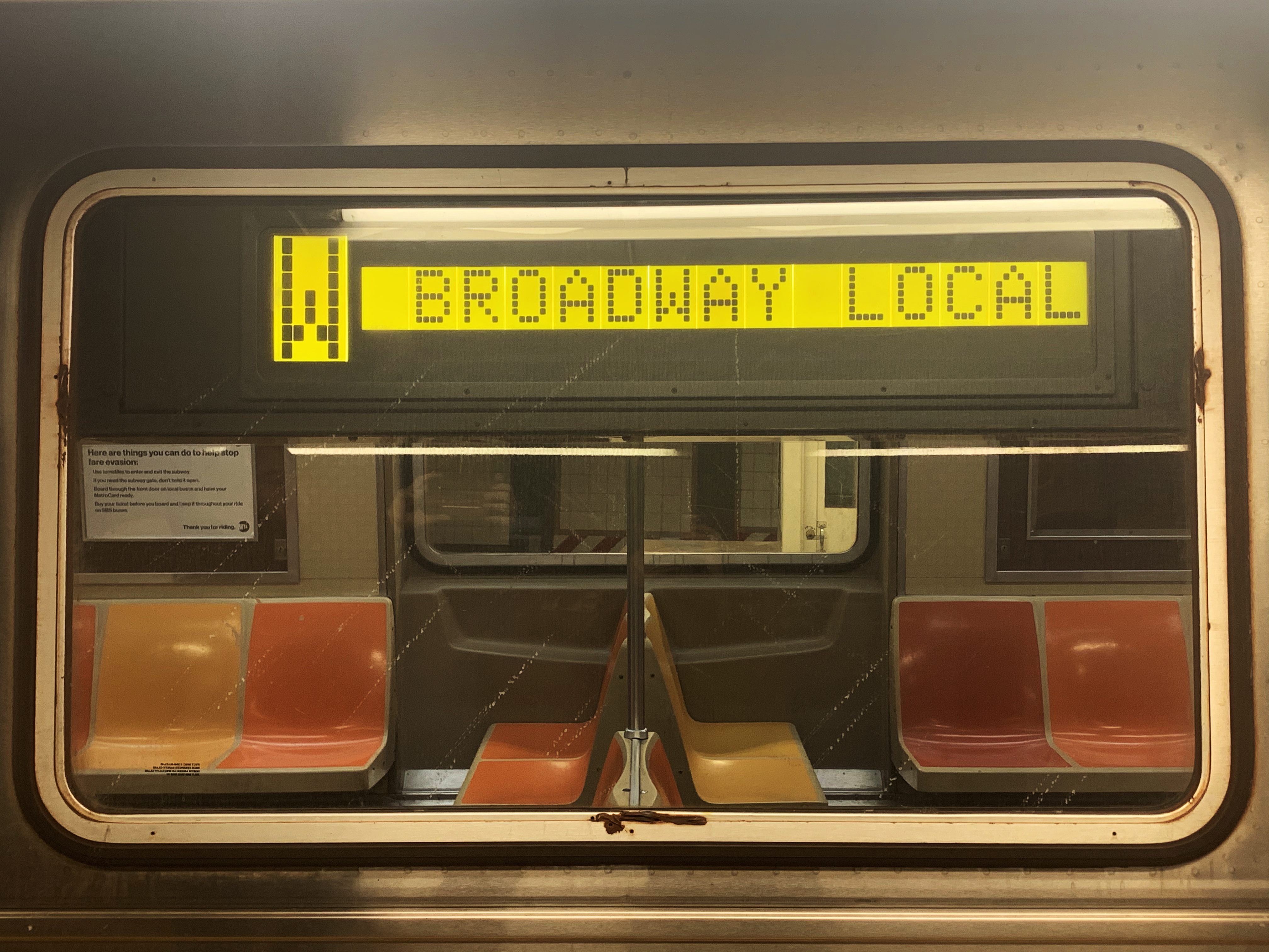 A revenue service R46 W at Whitehall Street, terminated. Showing the text “Broadway Local”.